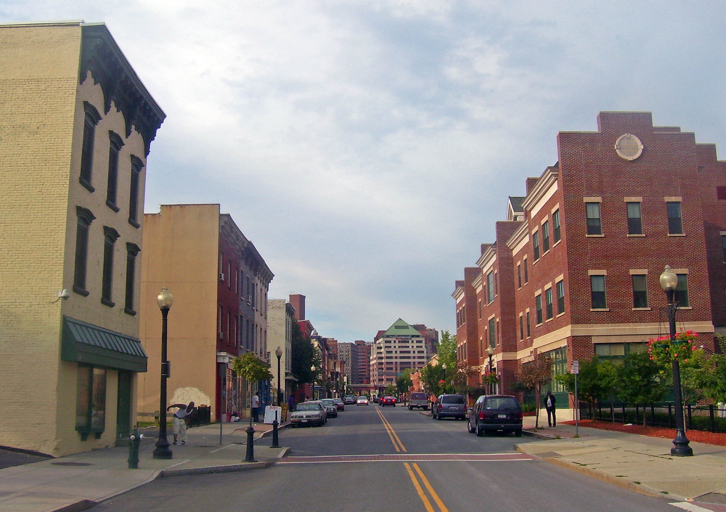 View north along South Pearl Street (NY 32) between Mansion and Pastures neighborhoods approaching downtown Albany, NY, USA